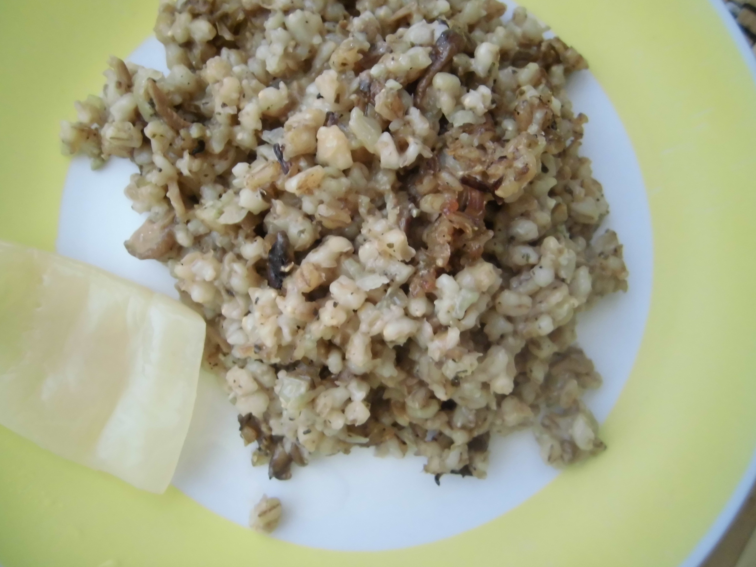 "Kuba" is a typical Czech Christmas meal. Her for lunch. Ingredients: barley, mushrooms, garlic, grease. Scallop in the oven.